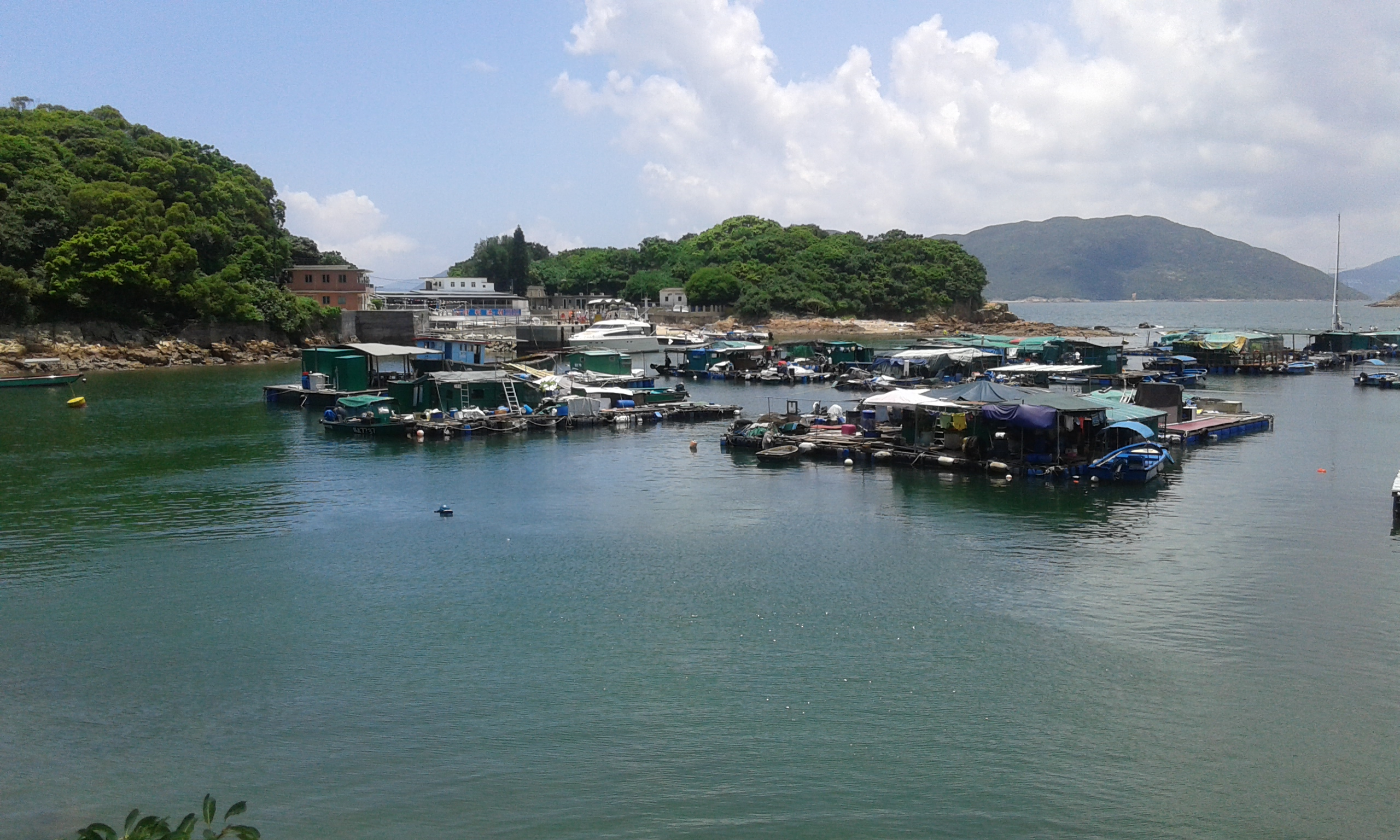 Sha Kiu (Sai Kung)